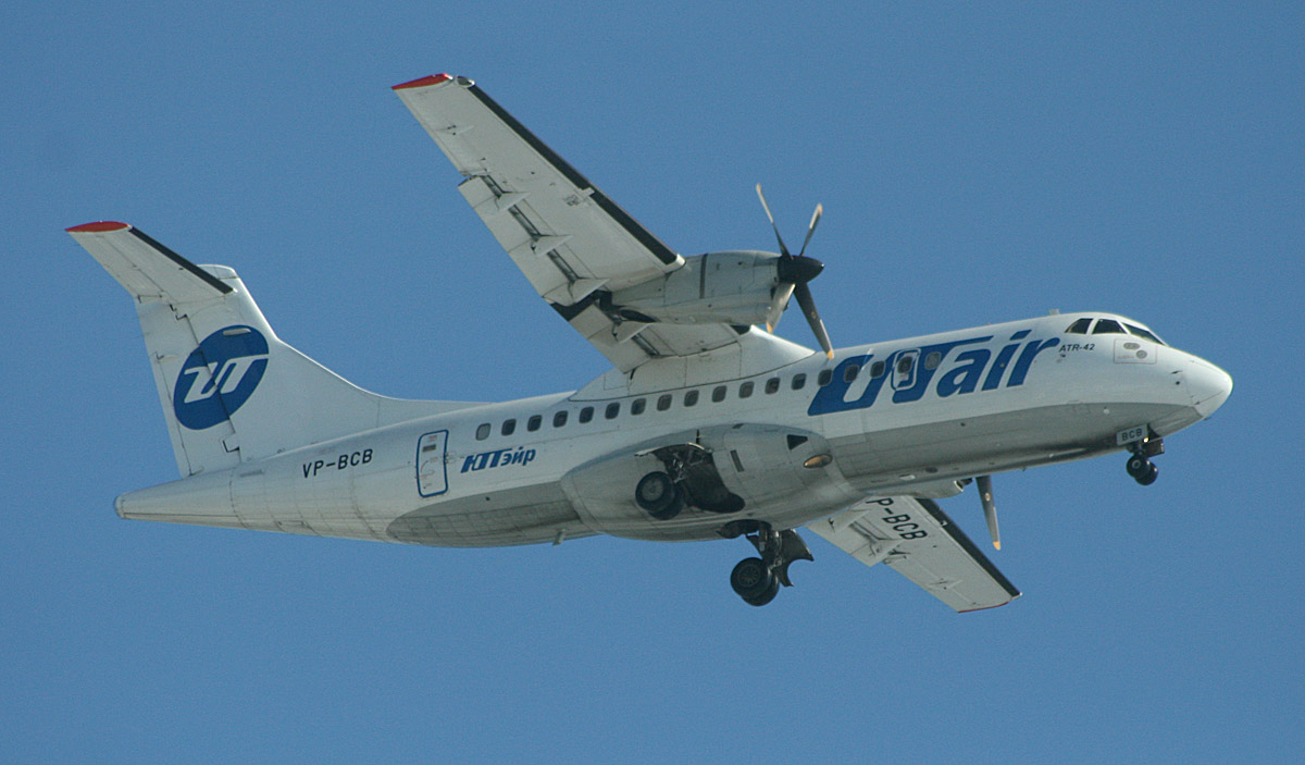 UTair ATR-42-300 (VP-BCB) landing Vilnius International AirportVNO